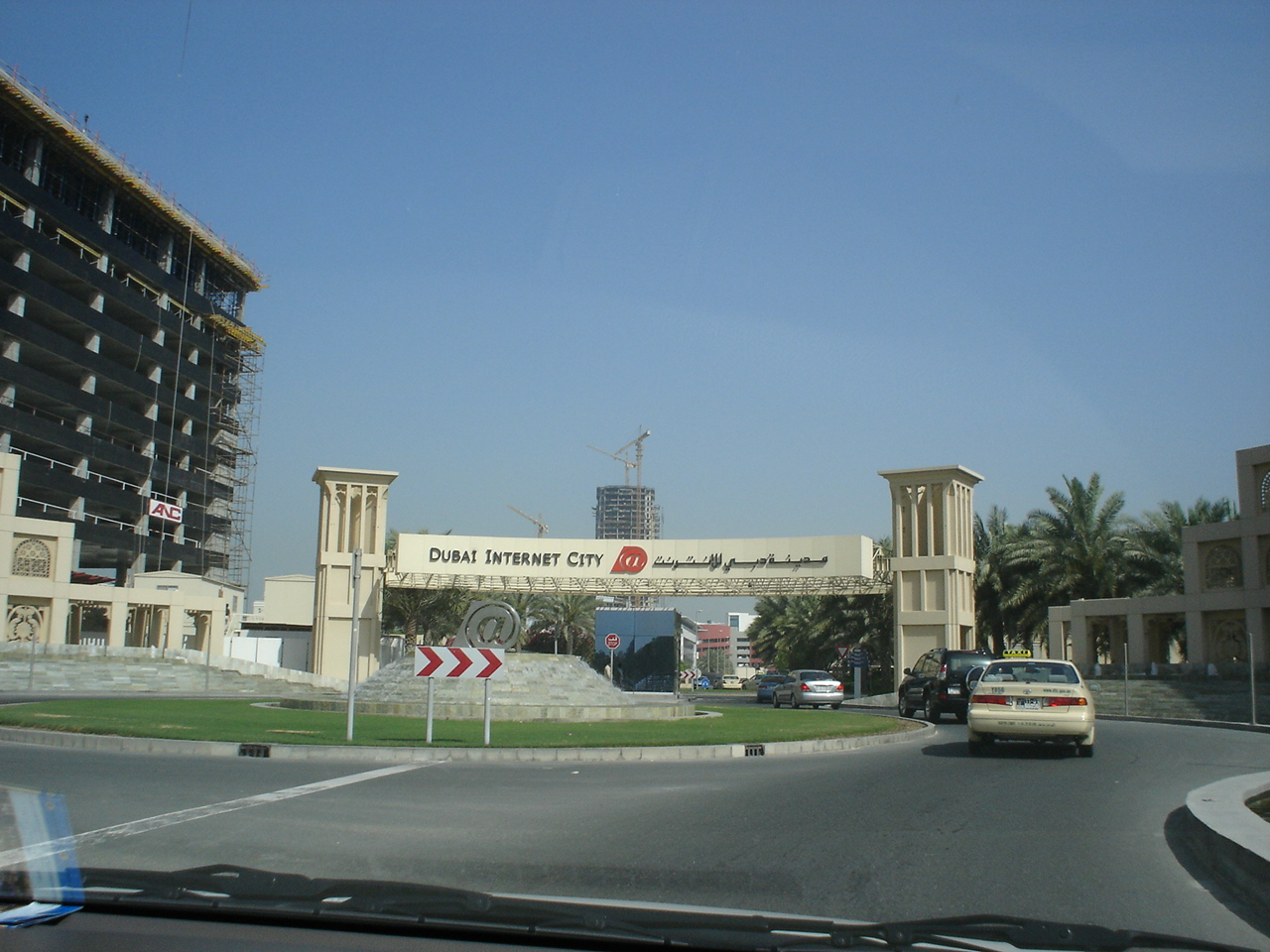 Dubai Internet City. Self-made photo Shijaz Abdulla